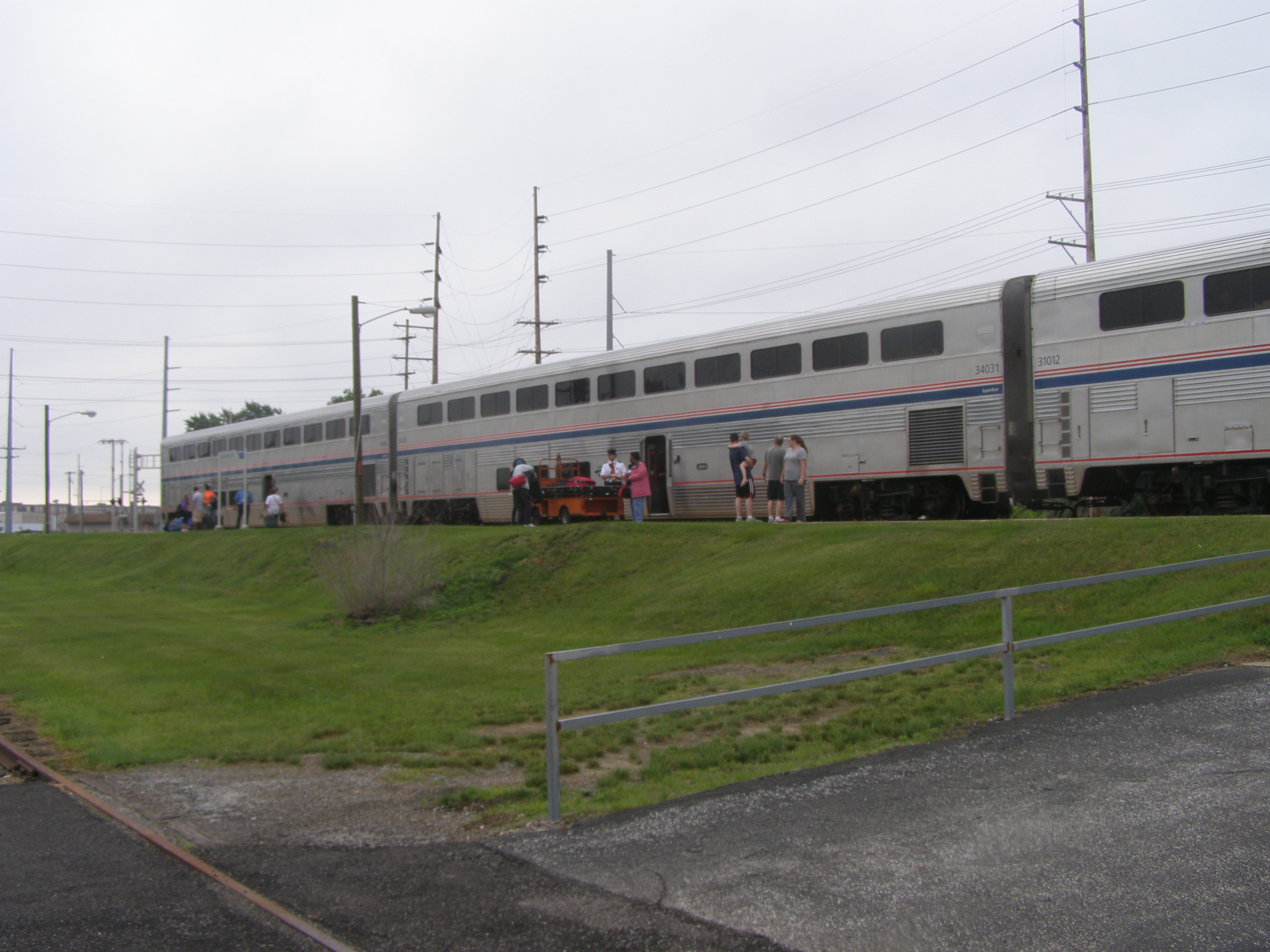 Capitol Limited in South Bend Station, Indiana.